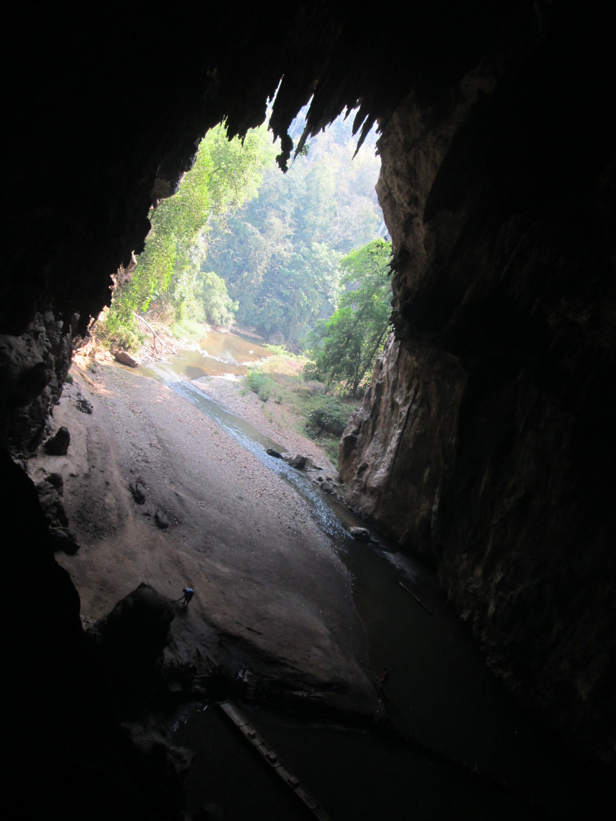 The exit of the Tham Lot cave, Thailand.